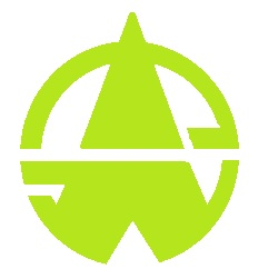 Yasuoka Nagano chapter